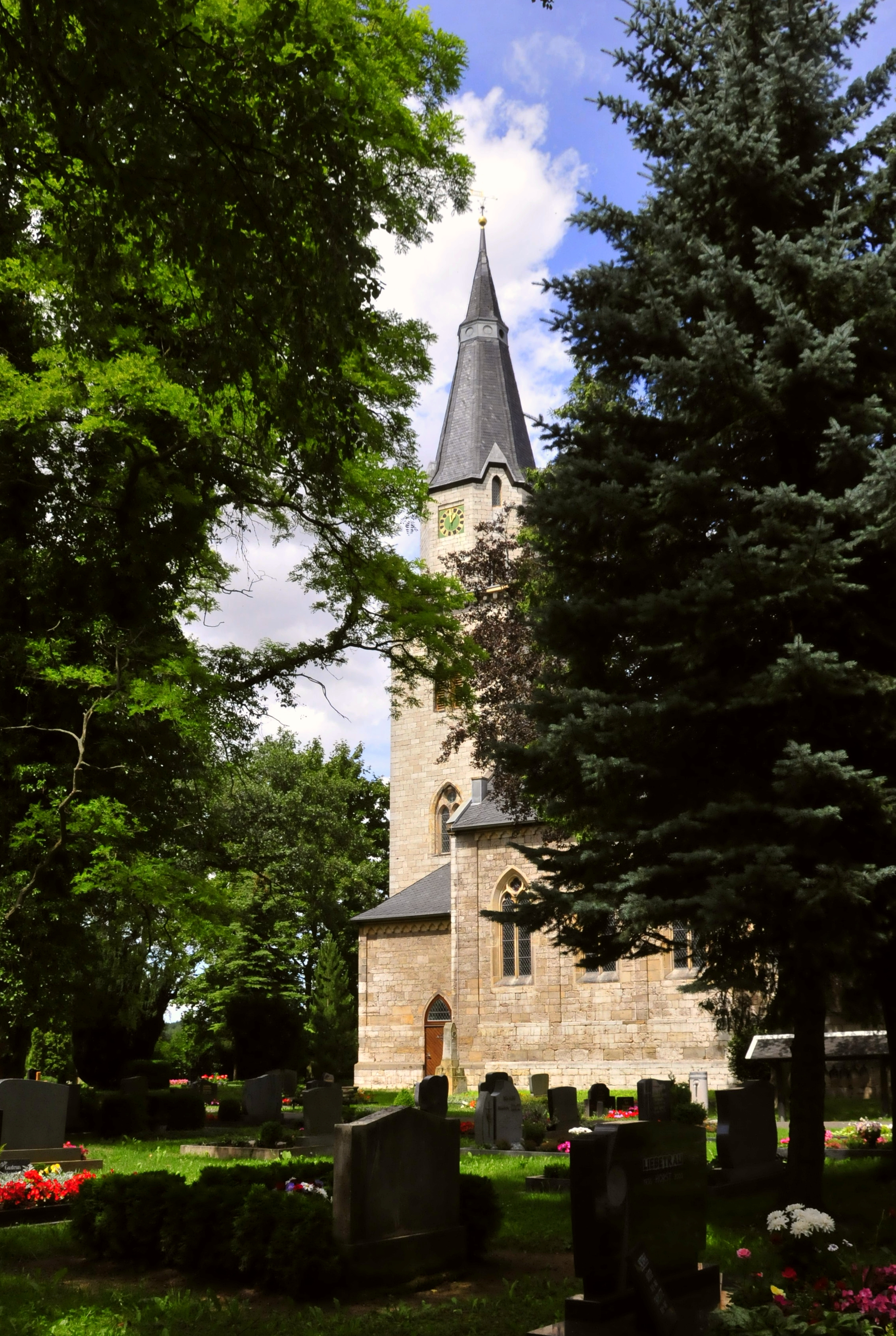 Sonneborn (Thuringia),church